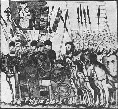 The Moorish army of almohad king Umar al-Murtada and Christian allies, readying for battle in the city of Marrakech